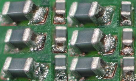 Image provided by Indium Corporation